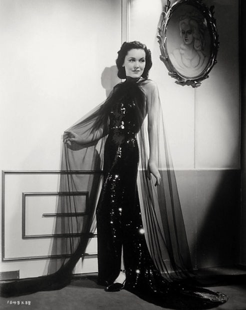 Maureen O'Sullivan in Hold That Kiss (1938) (gown designed by Dolly Tree) - publicity still